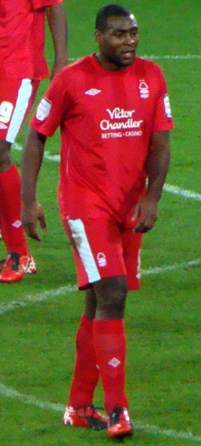 20/11/10 Cardiff V Nottingham Forest, Championship, Cardiff City Stadium, Cardiff, Wales